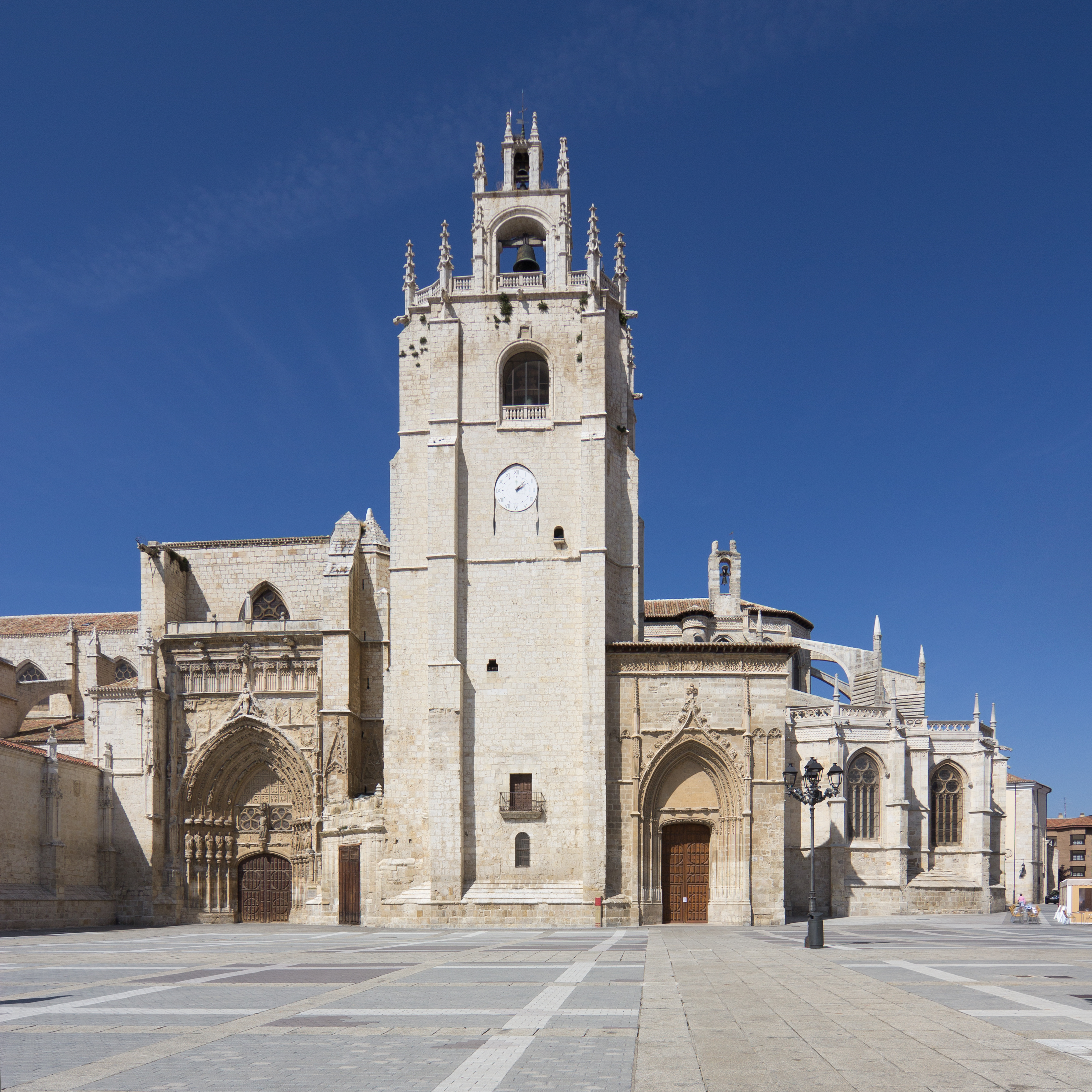 Cathedral of St. Antolín, Palencia, Spain.